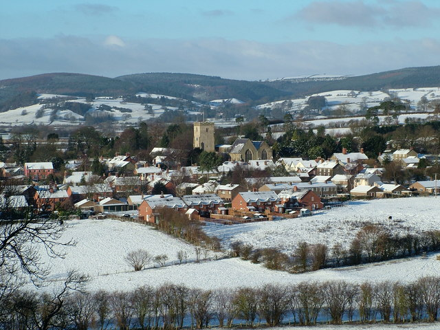 Leintwardine village from Church Hill View from Church Hill looking West over the village.